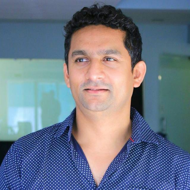 Sam Fernandes clicked during an event in Mumbai